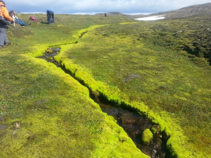 Eyjabakkar